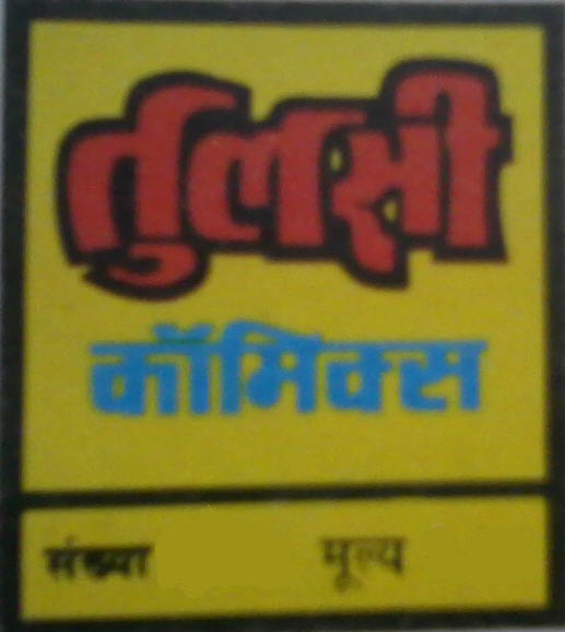 Tulsi Comics Logo